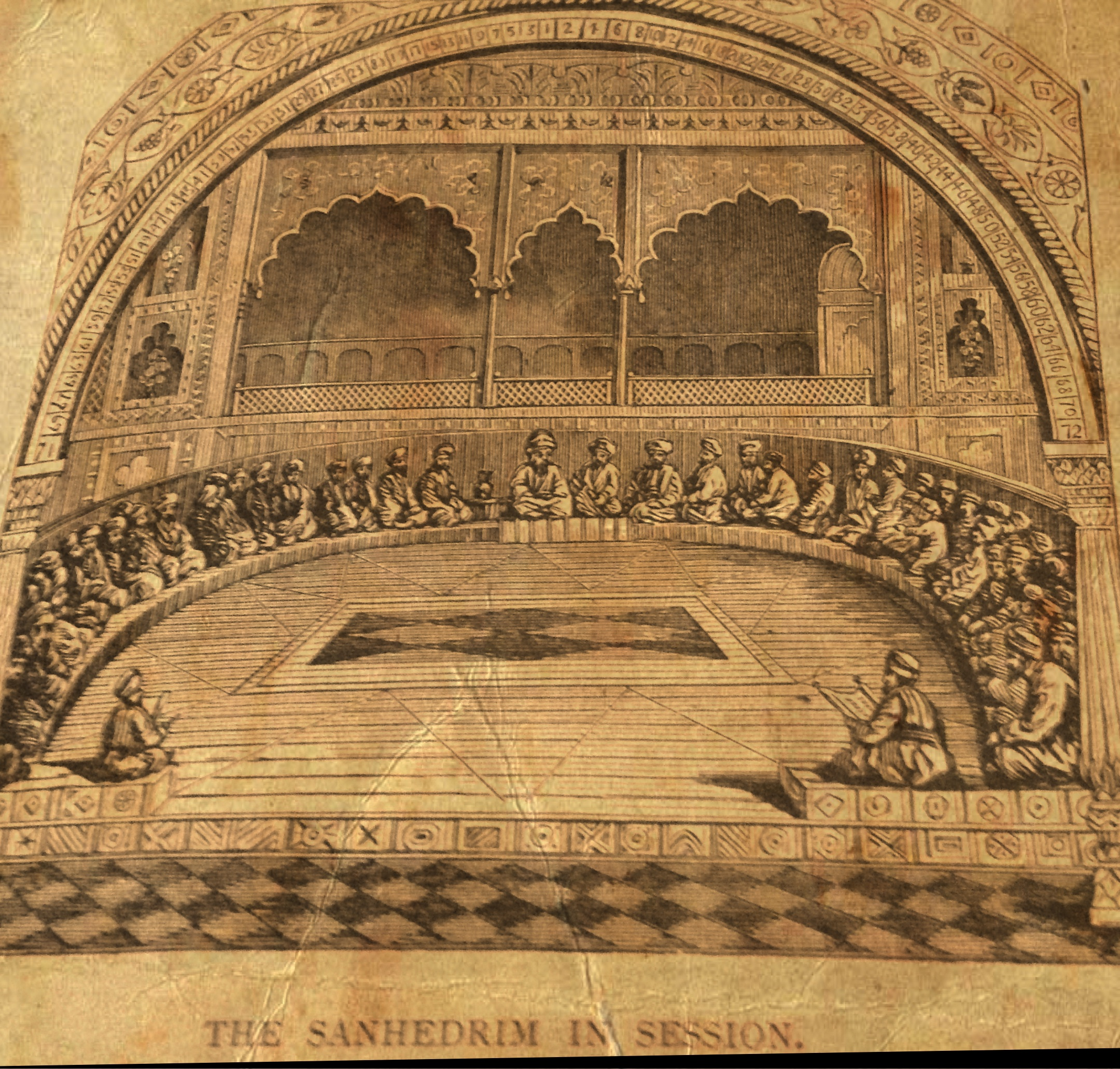 The Sanhedrin in session